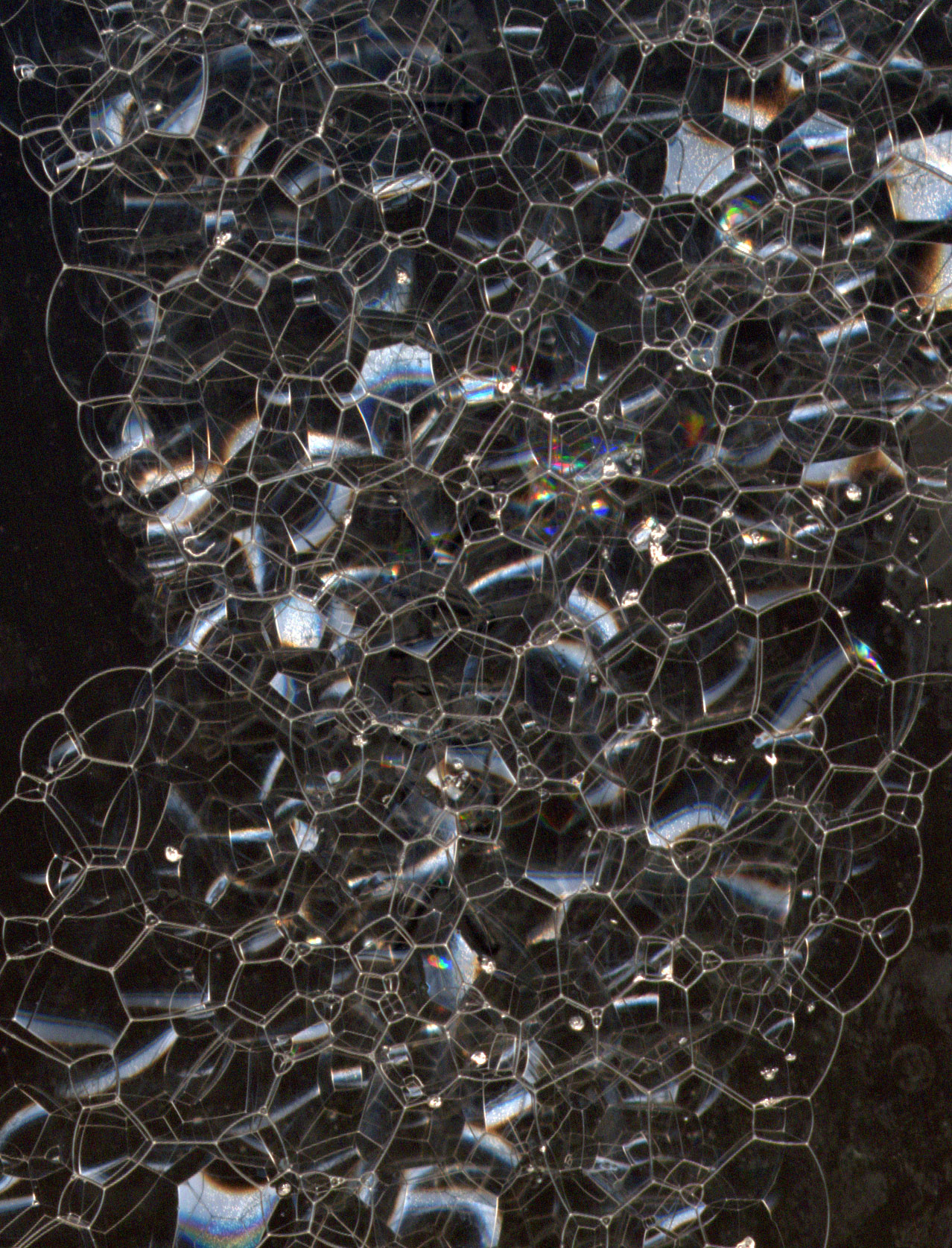 This image shows scanned foam.